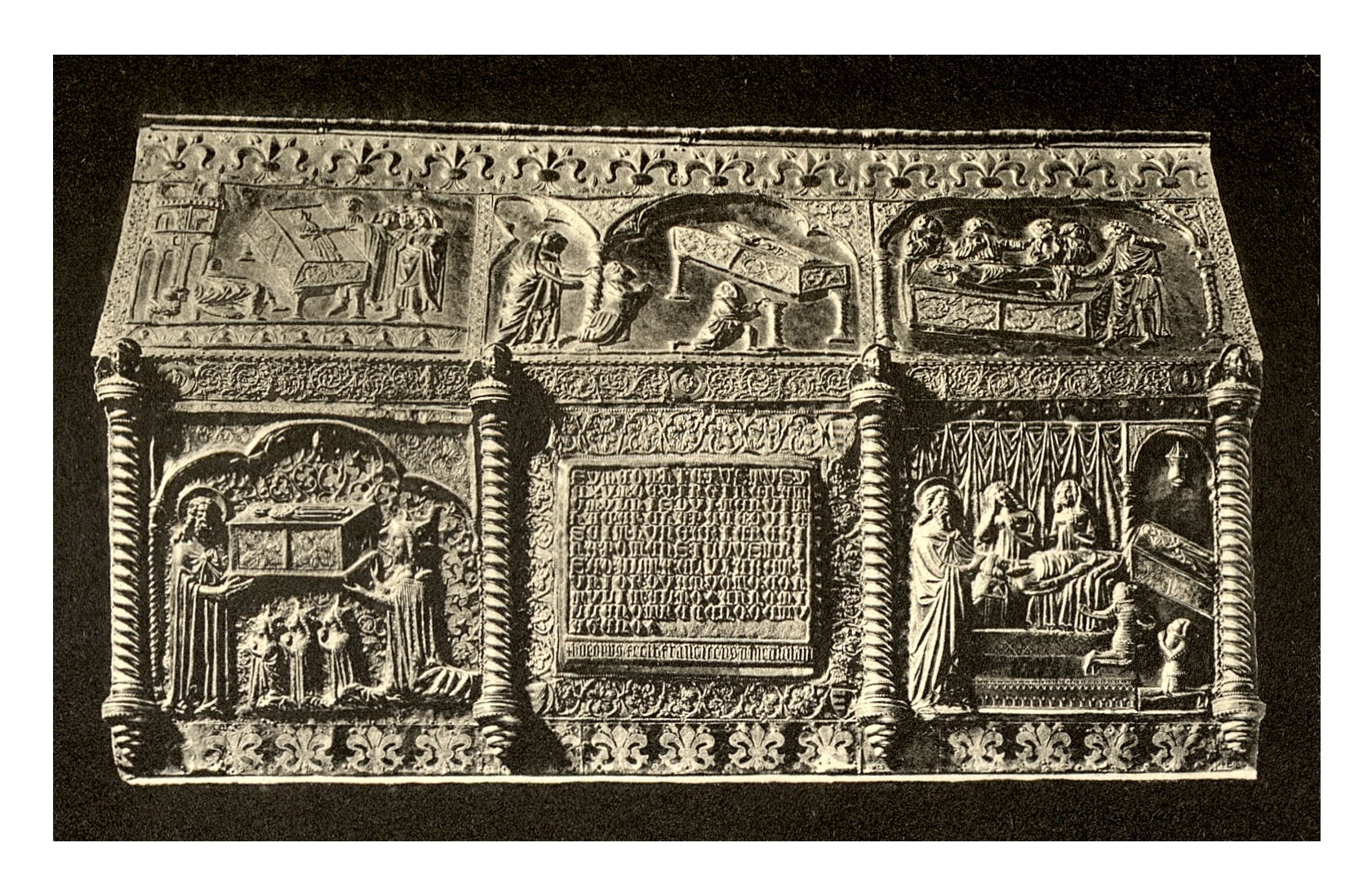 Denkmäler der Kunst in Dalmatien, Herausgegeben von Georg Kowalczyk, mit einer Einleitung von Cornelius Gurlitt. 132 Lichtdrucktafeln nach Naturaufnahmen des Herausgebers Georg Kowalczyk sowie nach Kupfern aus dem Werke von Robert Adam: Ruins of the Palace of the Emperor Diocletian at Spalat(r)o, 1764 Wien, 1910, Verlag von Franz Malota Scanprojekt Bundesdenkmalamt Österreich This scan or this PDF-file was created within the Austrian Wikipedia-project Denkmalpflege Österreich (German only) supported by Wikimedia Germany and Wikimedia Austria as part of the Wikipedia community-project to collect public domain documents from the library of the Heritage Monuments Board of Austria. This document describes or depicts an object which is located in Croatia today. Texts are written in German language. Send requests for uncompressed scans to Hubertl. This work is in the public domain in the United States, and those countries with a copyright term of life of the author plus 100 years or less. This file has been identified as being free of known restrictions under copyright law, including all related and neighboring rights.